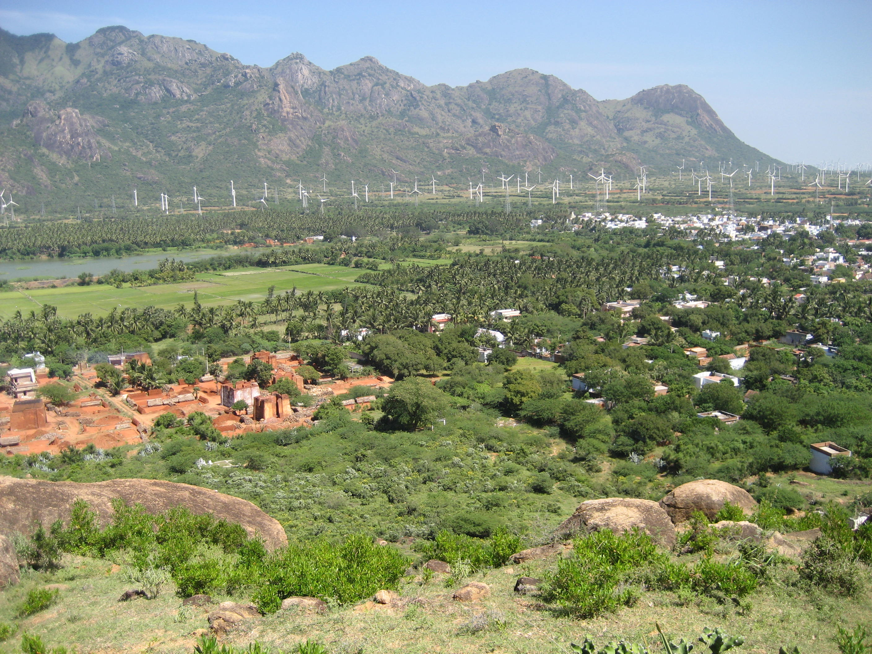 Aerial view of Aralvaimozhi from Thovalai Chekkar Giri Malai